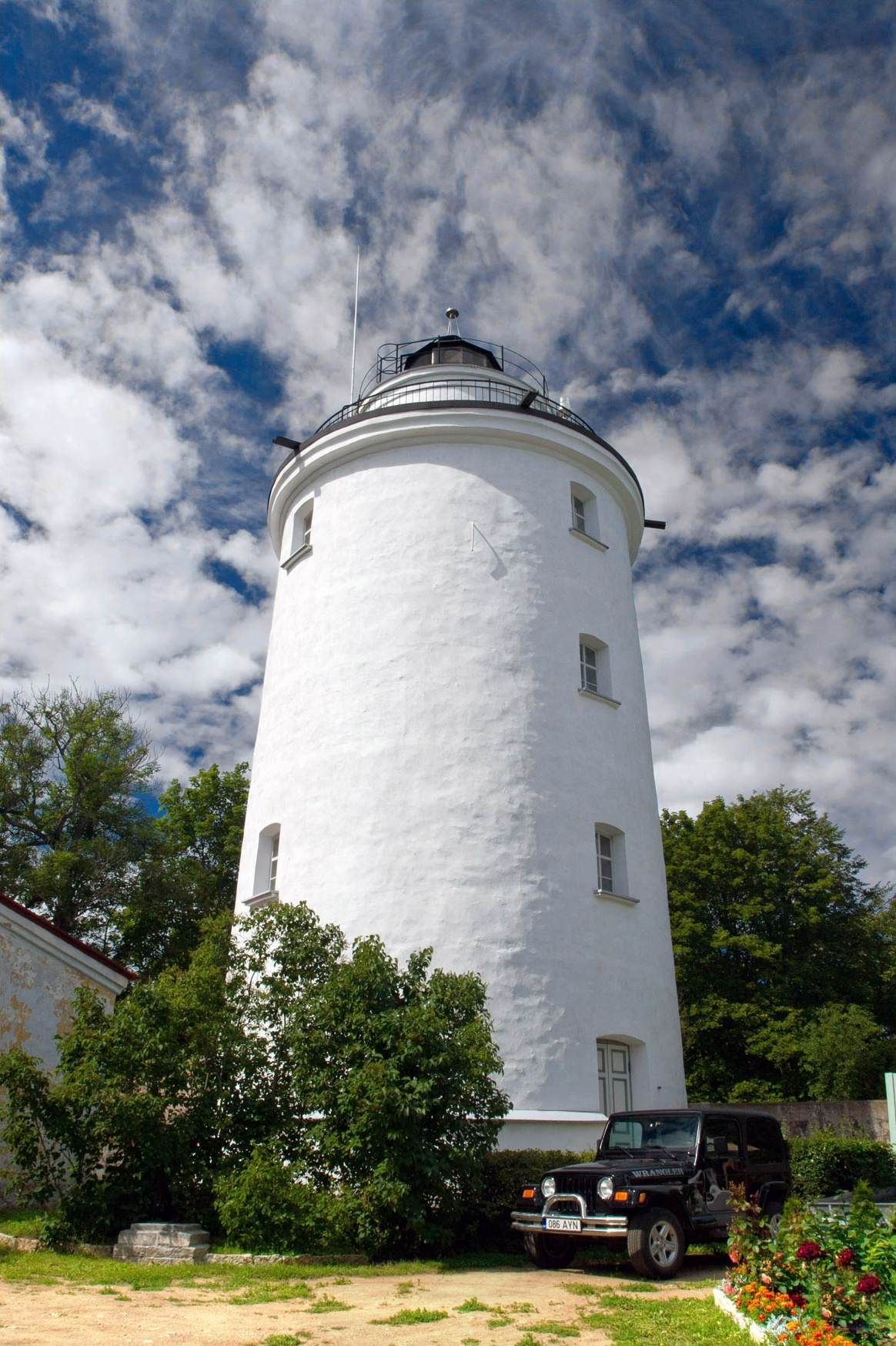 Suurupi rear lighthouse